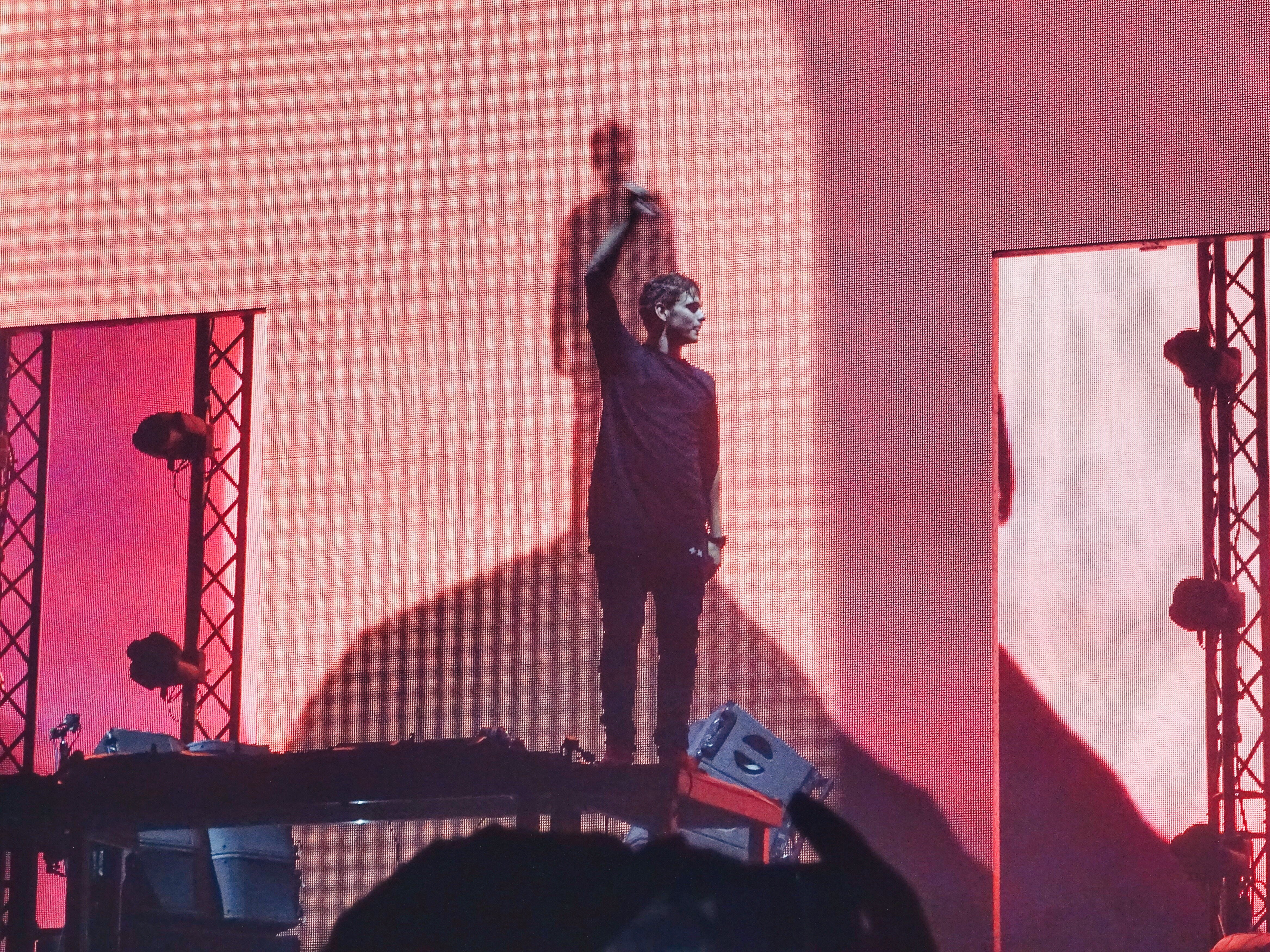 Martin Garrix playing live at BigCityBeats World Club Dome Winter Edition 2017.